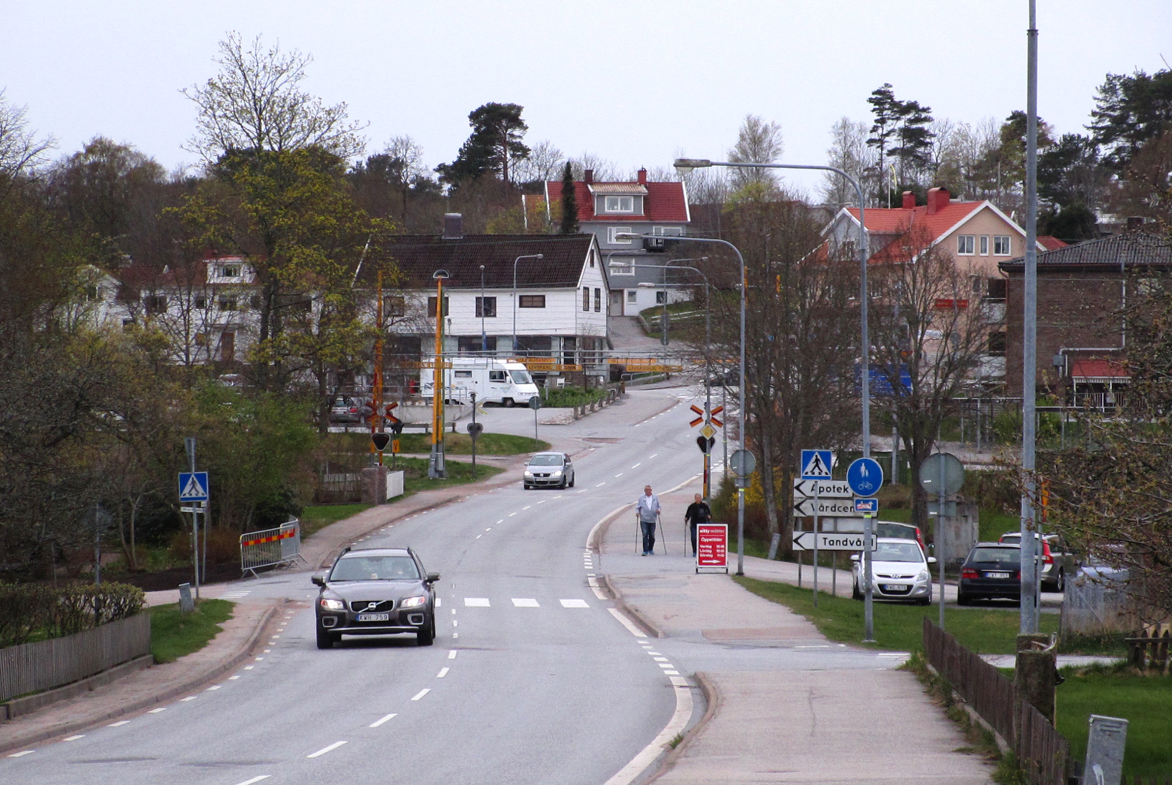 Downtown Brastad, Lysekil, Sweden, as seen from across the railway.